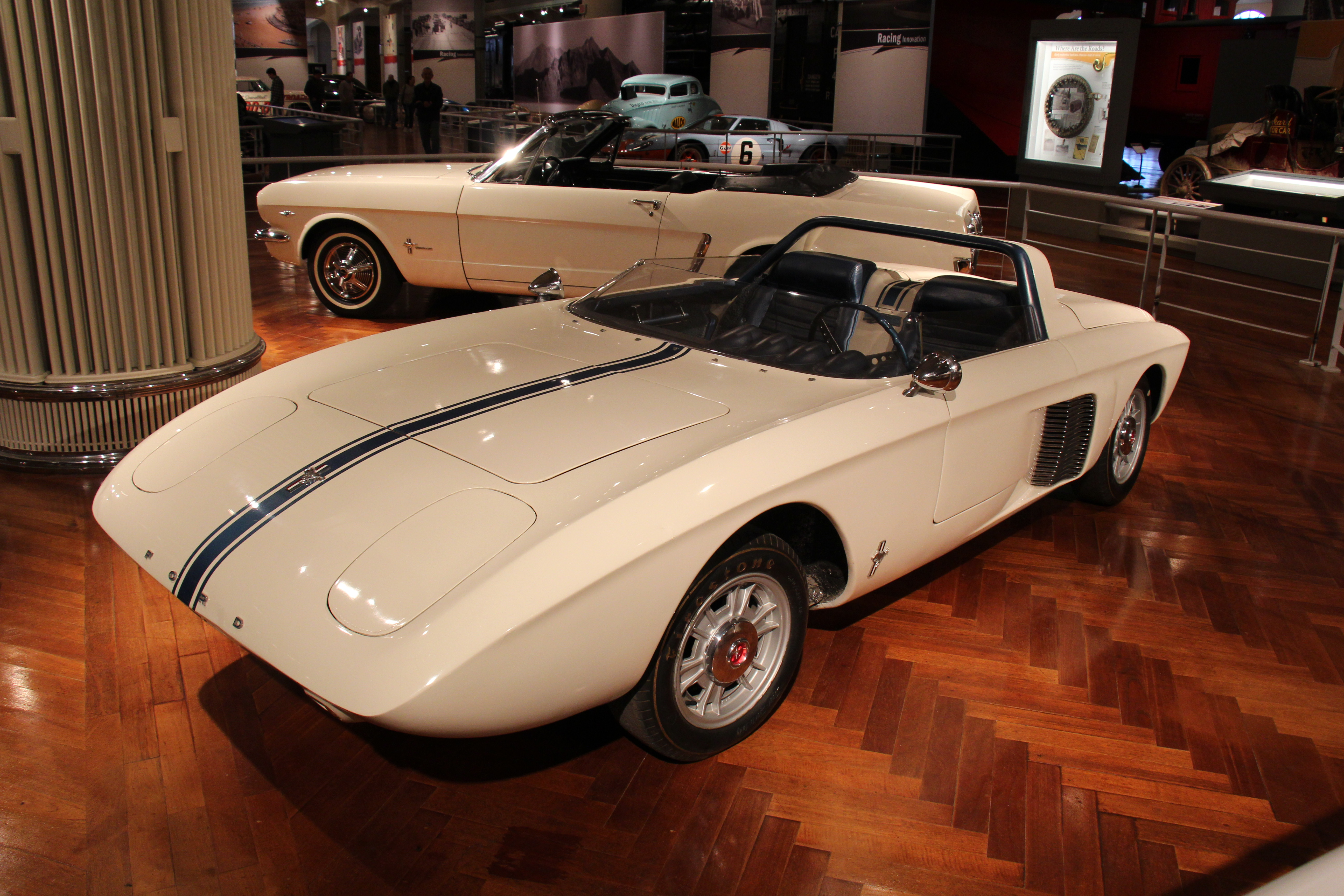 This was a concept car from 1962, developed to make people think Ford was an exciting, forward thinking company. The car was a sleek looking open 2 seater in a aluminium body with a mid mounted V4 engine. The car was deemed too extreme for production, so only 2 were made. This car was rediscovered in 1967, restored and donated to the Henry Ford Museum in Dearborn, Michigan back in 1982 where it resides today and where this photograph was taken. The Mustang behind is the very first production Mustang ever built; a 1964 260 V8 Wimbledon White Convertible